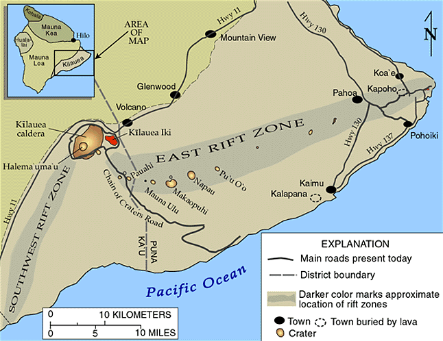 Simplified map of Kīlauea Volcano, Hawaiʻi